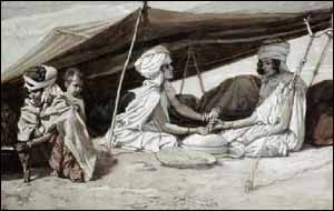 Rachel and Leah, watercolor by James Tissot at the Jewish Museum, New York